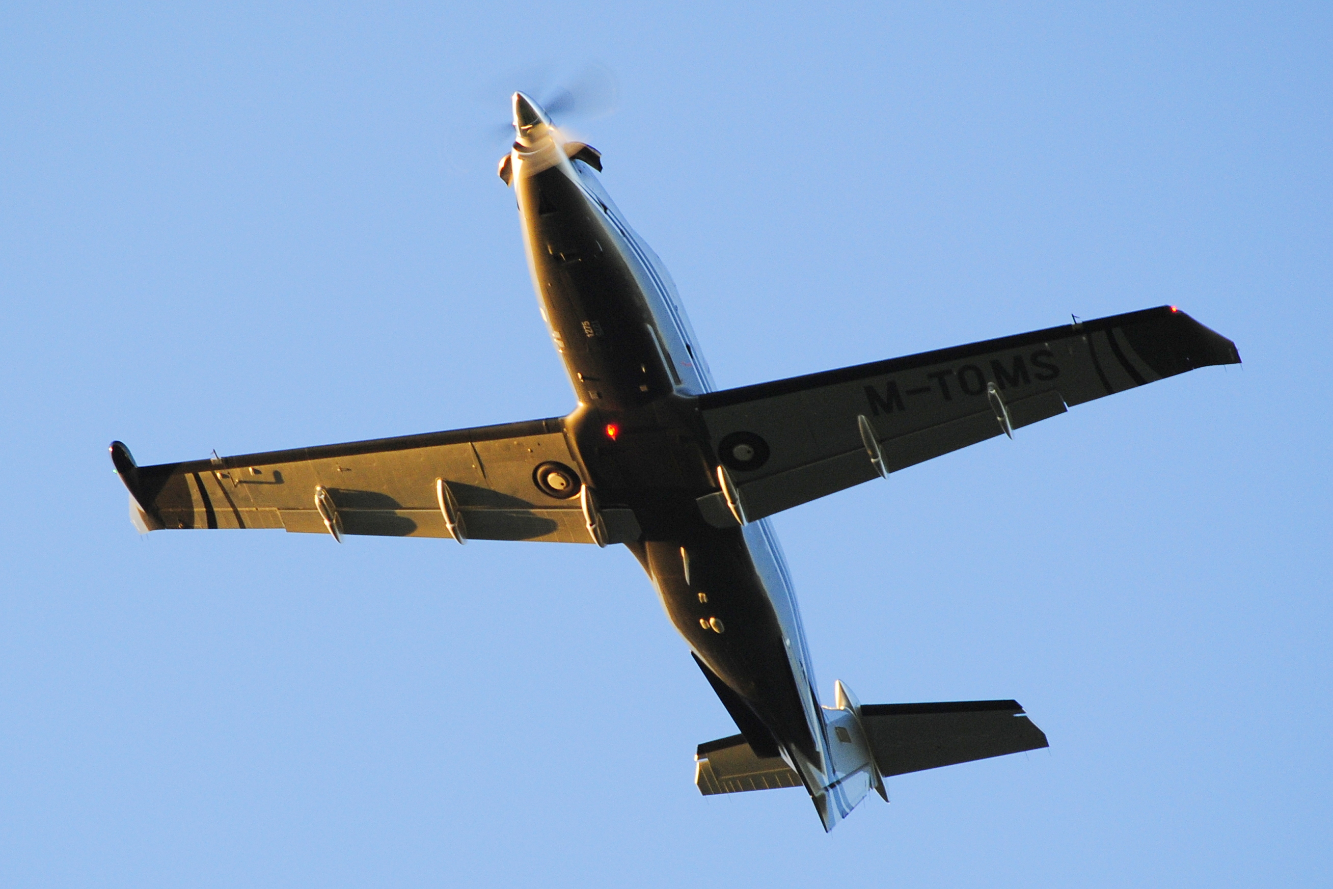 M-TOMS